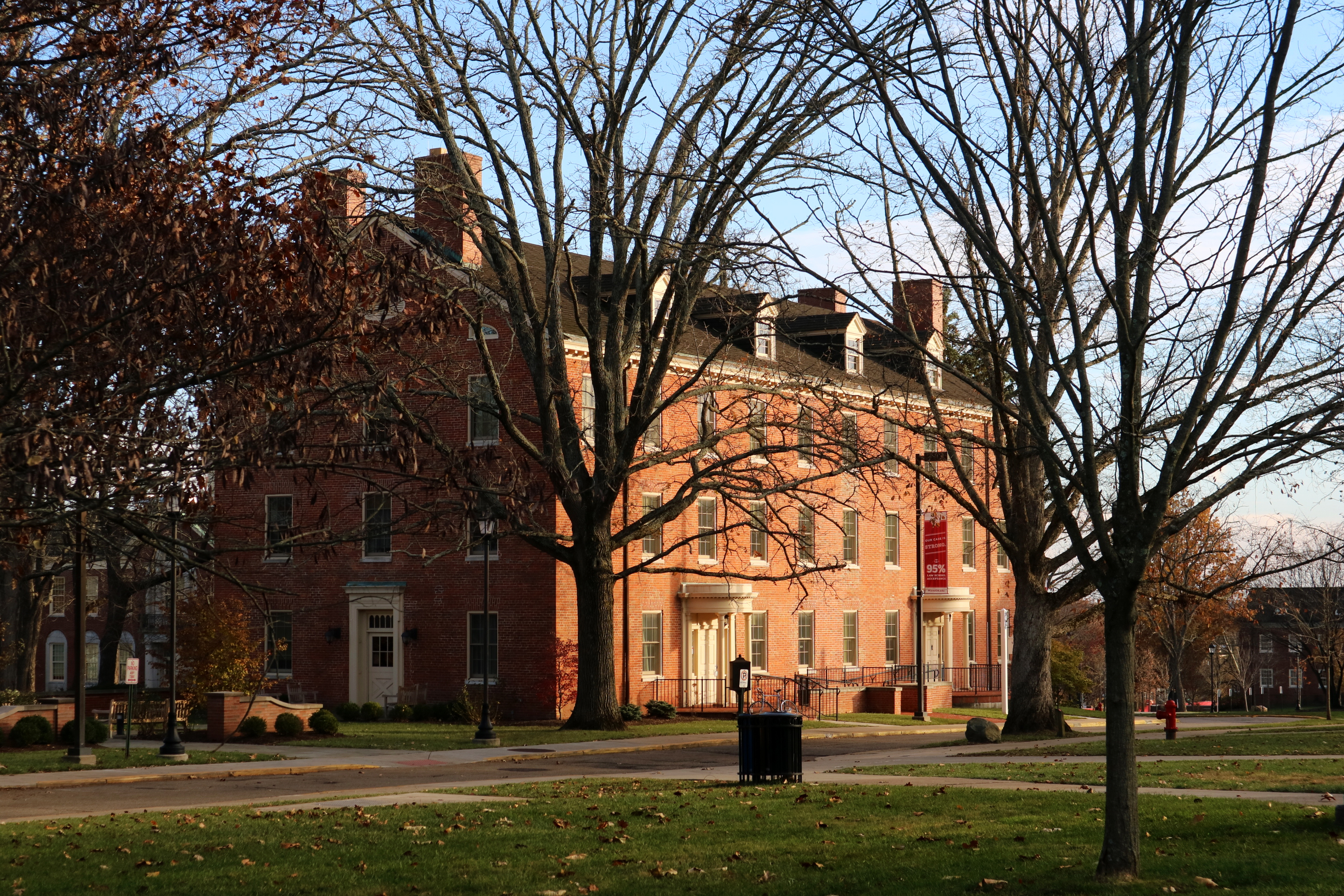 Stoddard Hall, built in 1835 is one oldest remaining buildings in Miami University. It is listed on the National Register of Historic Places.